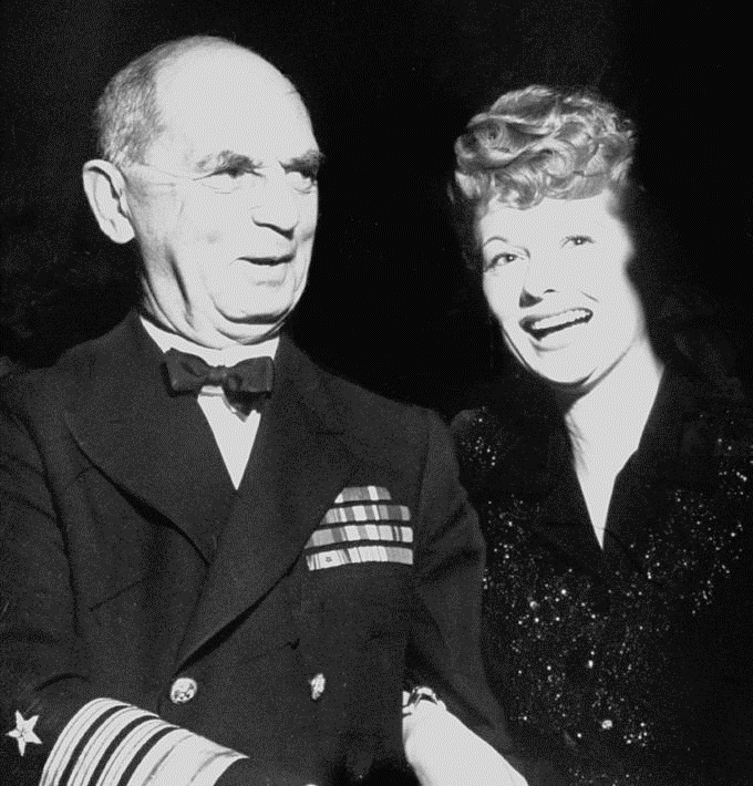 Photograph of Lucille Ball and Admiral William D. Leahy at a reception at the Mayflower Hotel in Washington, D.C., for the celebrities invited to assist in a series of fundraisers for the President's Birthday Ball to fight infantile paralysis